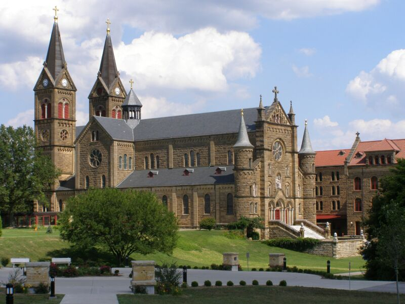 St. Meinrad Arch Abbey